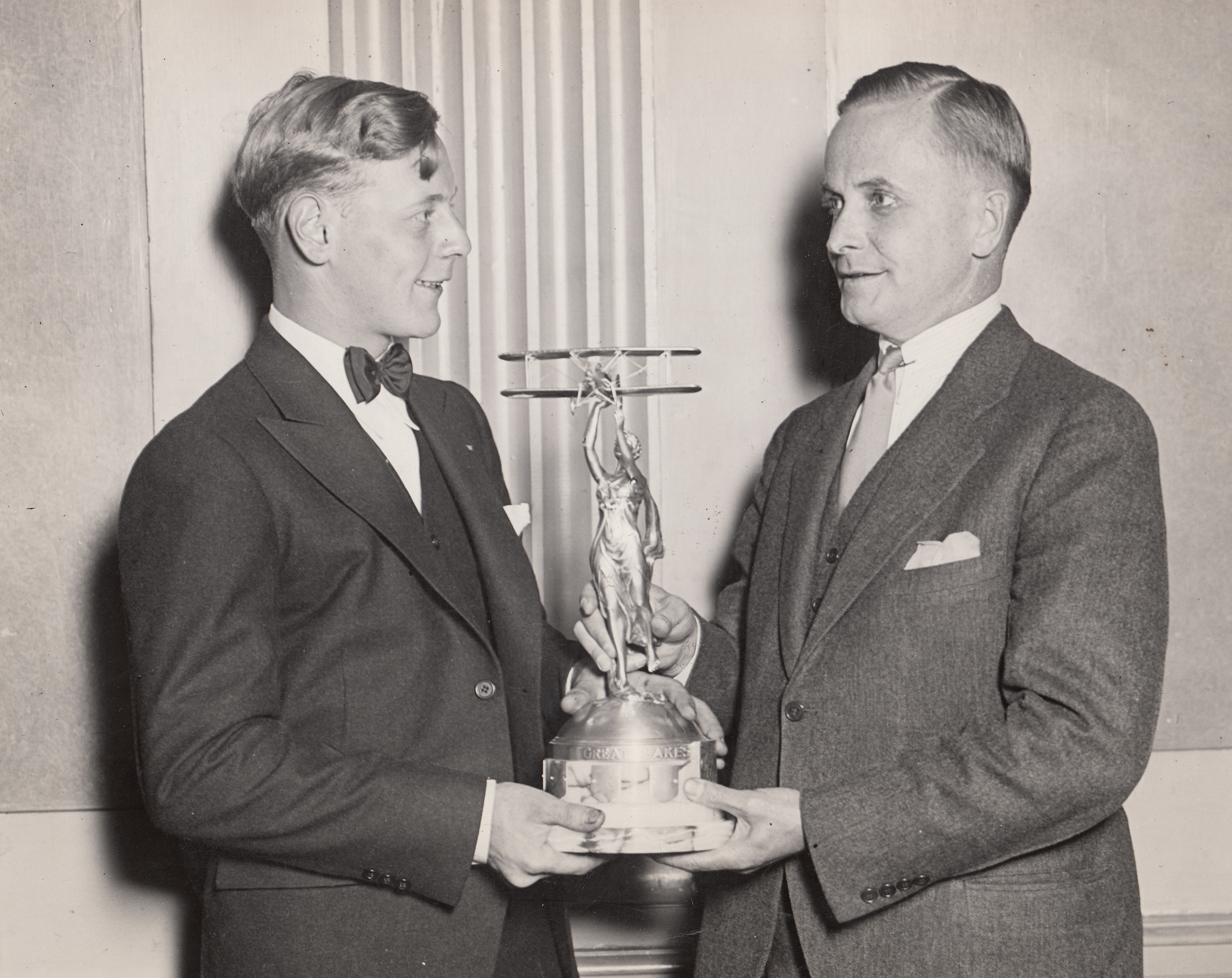 Eddie August Schneider on September 27, 1930 accepting the Great Lakes Trophy in Detroit, Michigan from David Vincent Stratton (1884-1968). This image was scanned at 600 dpi, and compressed to 100 quality. It was cropped to remove the white border.